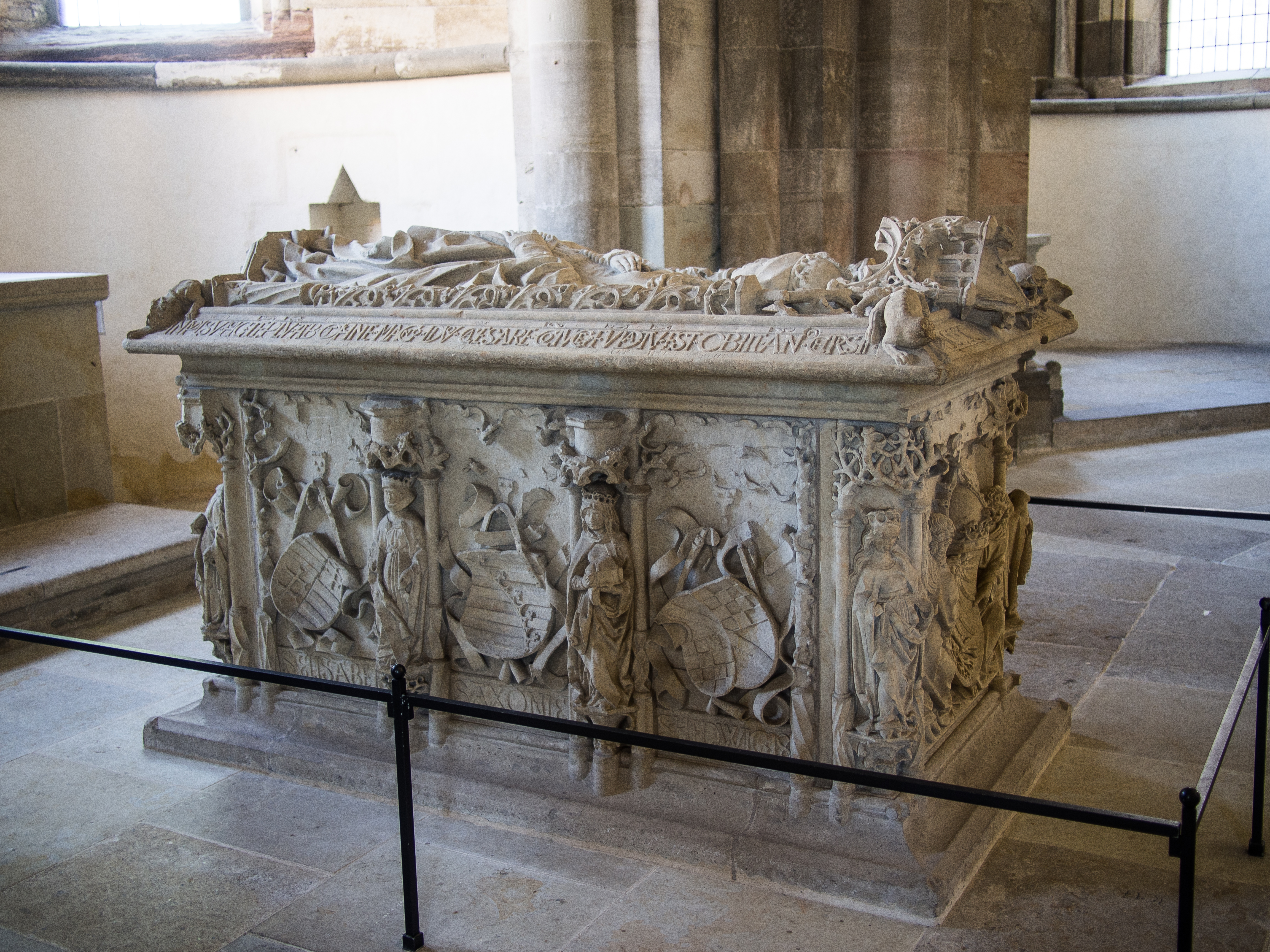 Magdeburger Dom / Cathedral